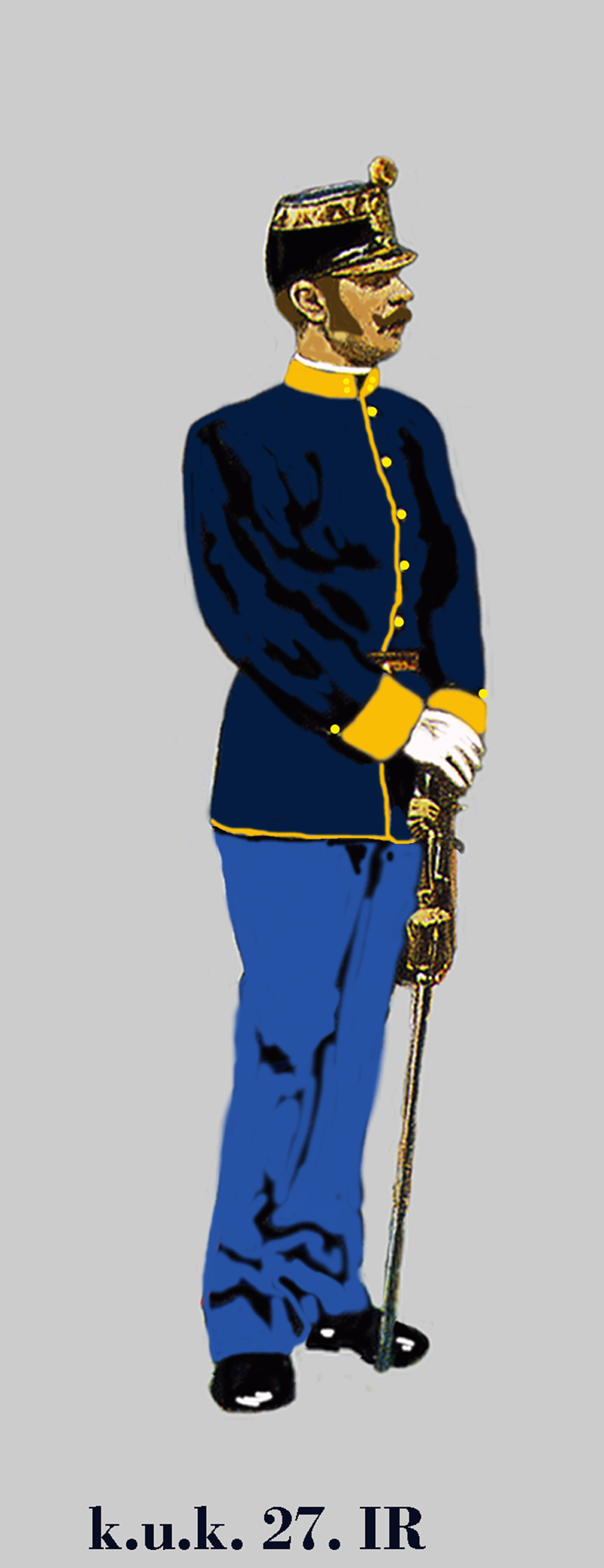 Lieutenant of the Austria-Hungarian (k.u.k.). 27th german Infantry Regiment in Parade dress 1914